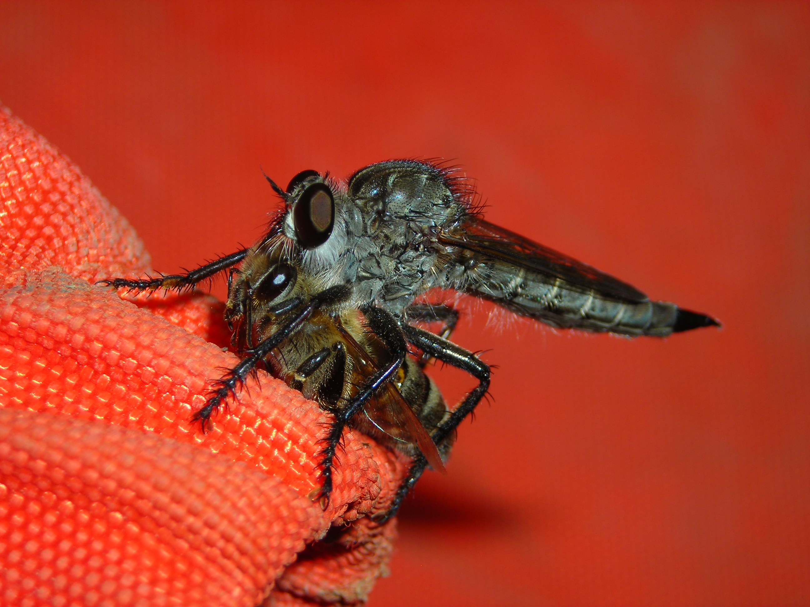 This is a rober fly that has just captured a bee, photo taken in August 2007, Heraklion, Crete, Greece